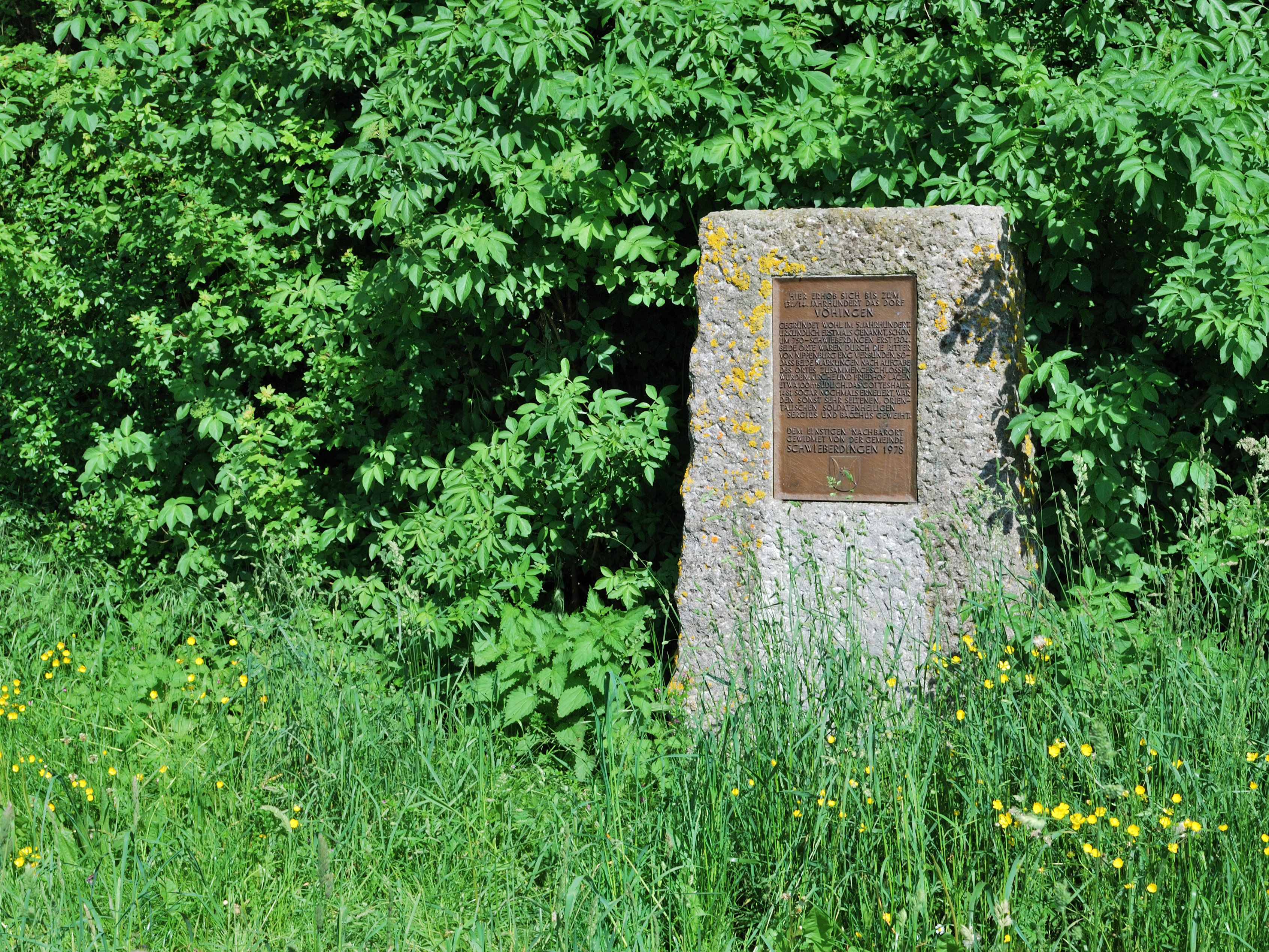 Memorial stone with a plaque for the former mediaeval village Vöhingen, nearby Schwieberdingen in Southern Germany.